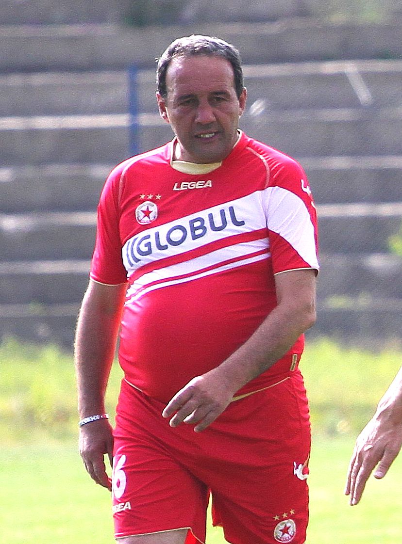 Georgi Georgiev - former Bulgarian soccer player